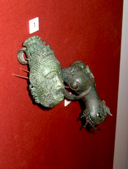 Igbo Ukwu bronzes in the British Museum